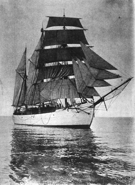 Photograph supplied by Professor E. von Drygalski, Gauss (Ship)